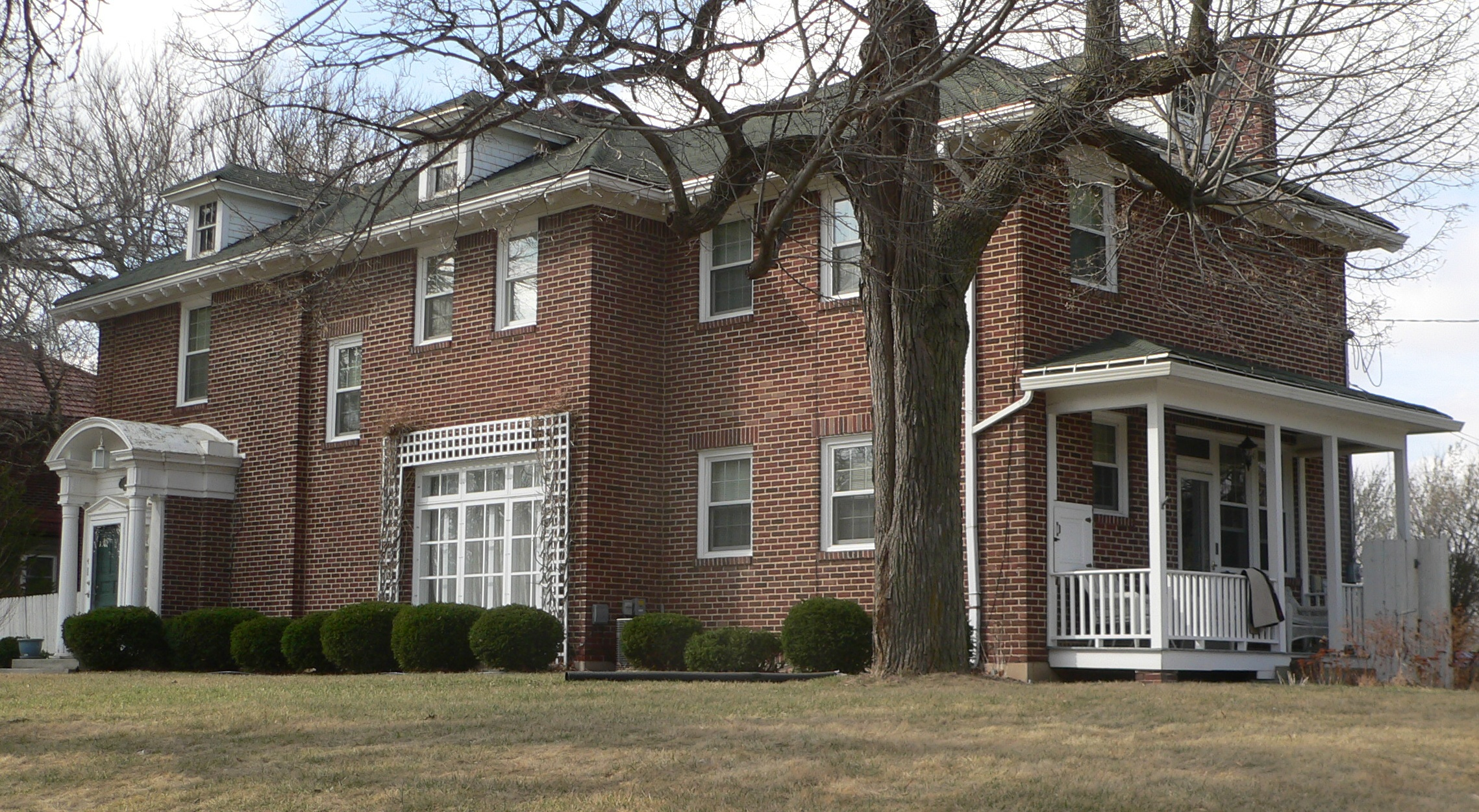 Arthur and Stella Sanford house, located at 1925 Summit Street in Sioux City, Iowa; seen from the northeast.